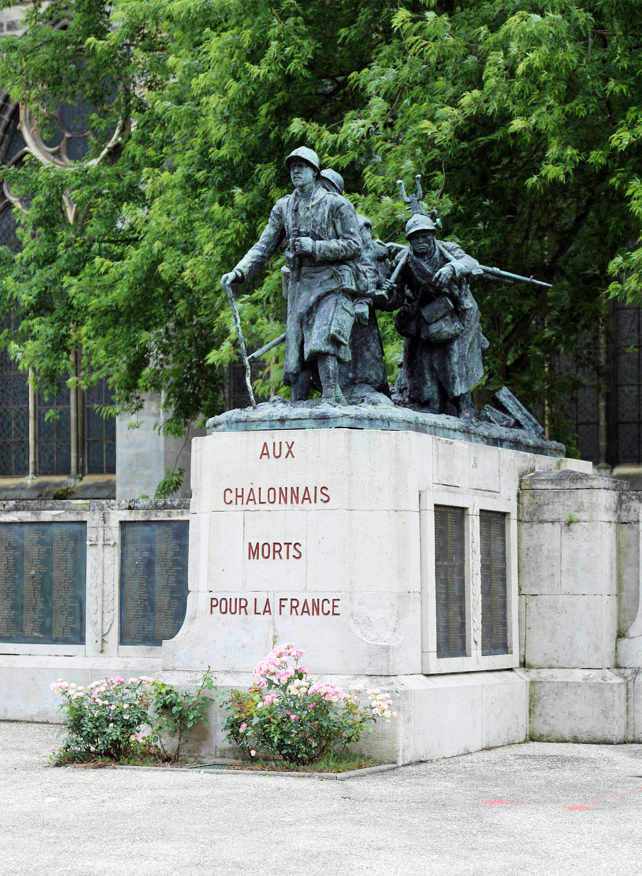 Châlons-en-Champagne (Marne department , France): war memorial (WW1) next to the cathédral, with sculpture "La Dernière Relève" ("the last relief") by Gaston Broquet (1880-1947)